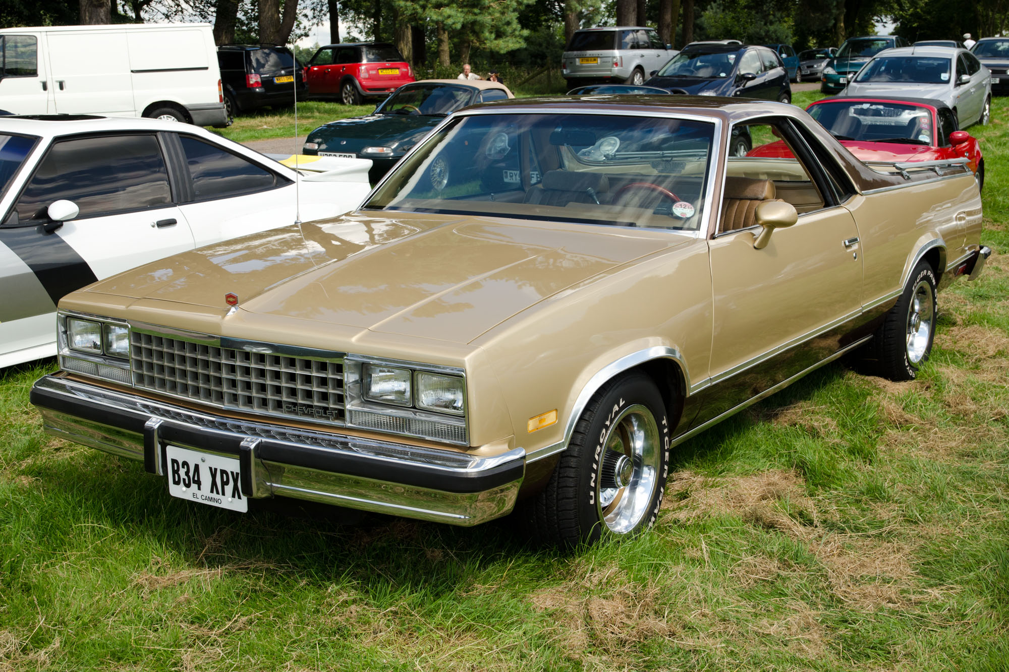 Capesthorne Hall Classic Car Show 27/07/2014